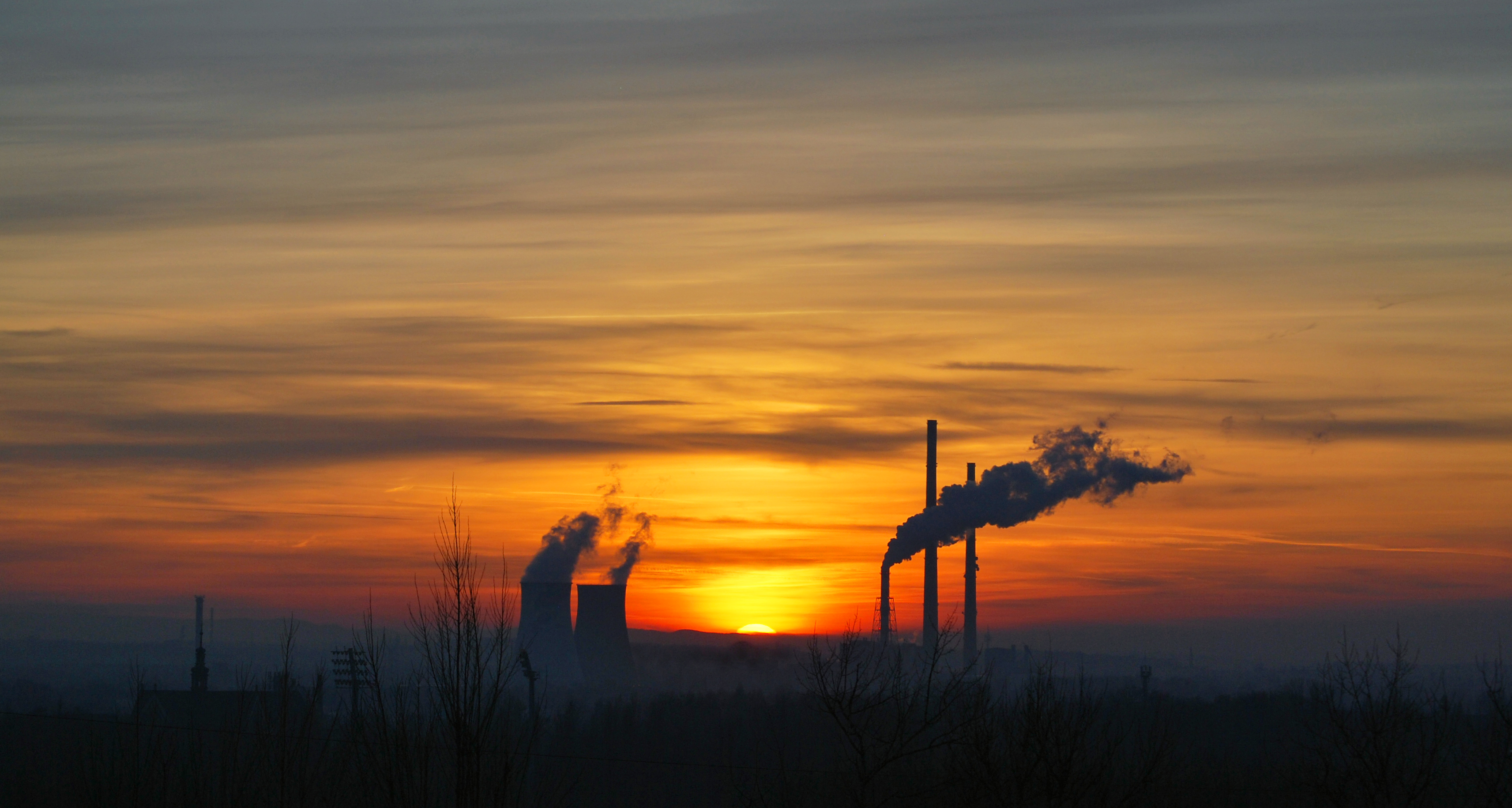 View from Wanda Mound, Sunset 6 February (Celtic Imbolc feast) and Krakus Mound, Wanda Mound, Ujastek Mogilski street, Nowa Huta, Kraków, Poland